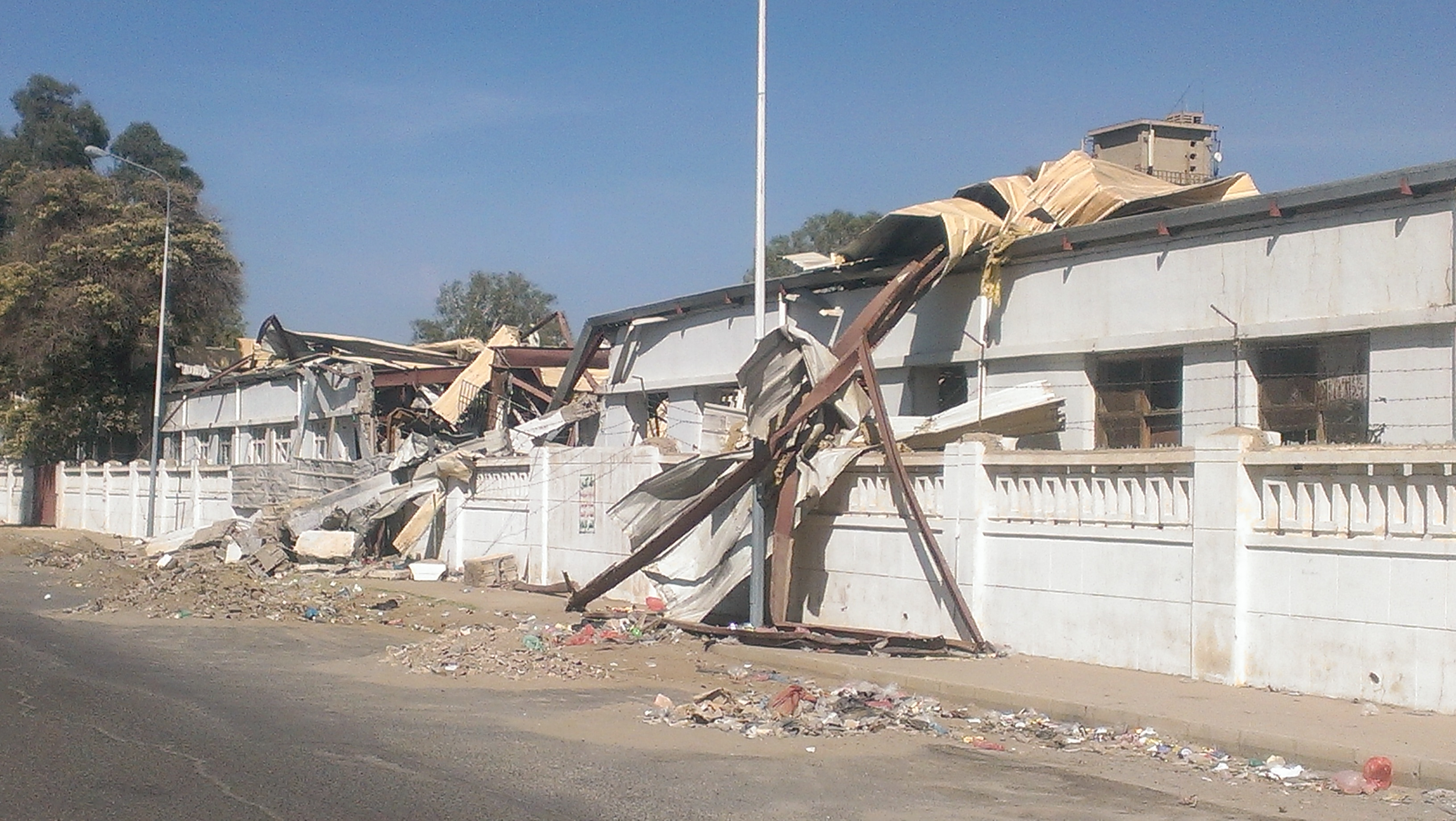 Original description: "This textile factory was bombed in July, leaving more than 1,300 people unemployed. Many of the workers are now looking for work as day laborers, Sana'a, Yemen, November 2015."